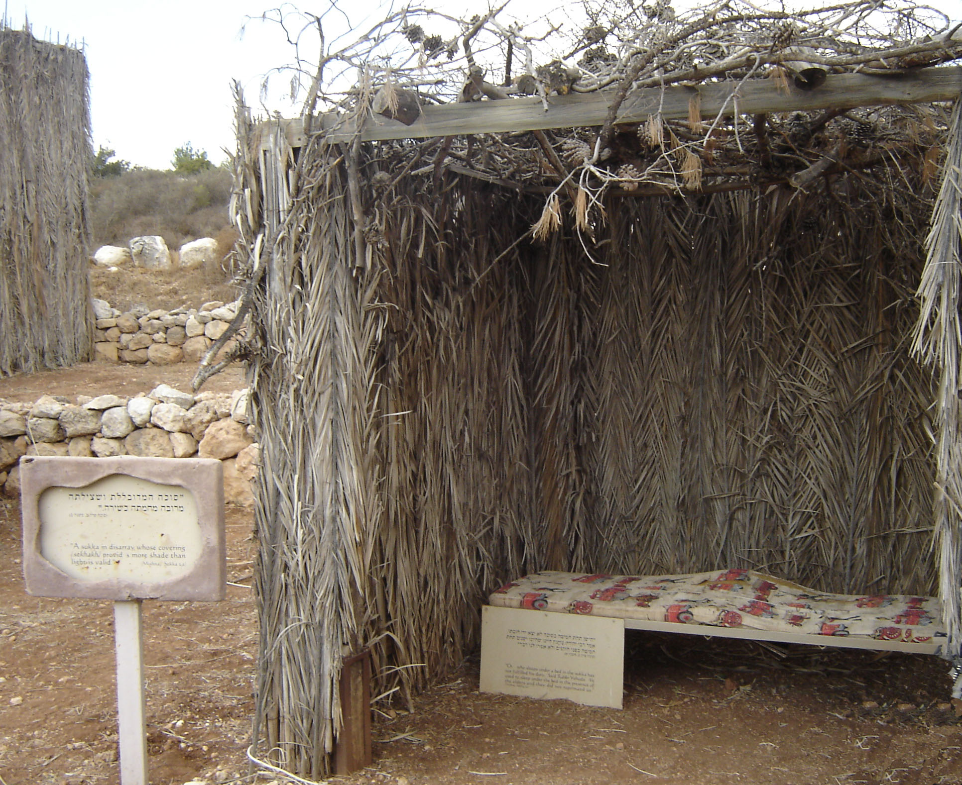 sparse sukkah